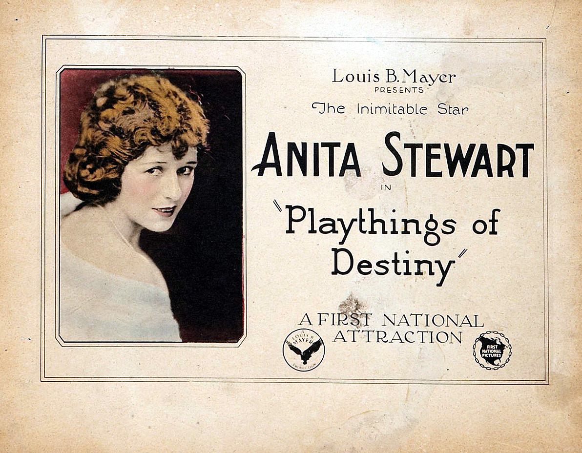 Lobby card for the American drama film Playthings of Destiny (1921).